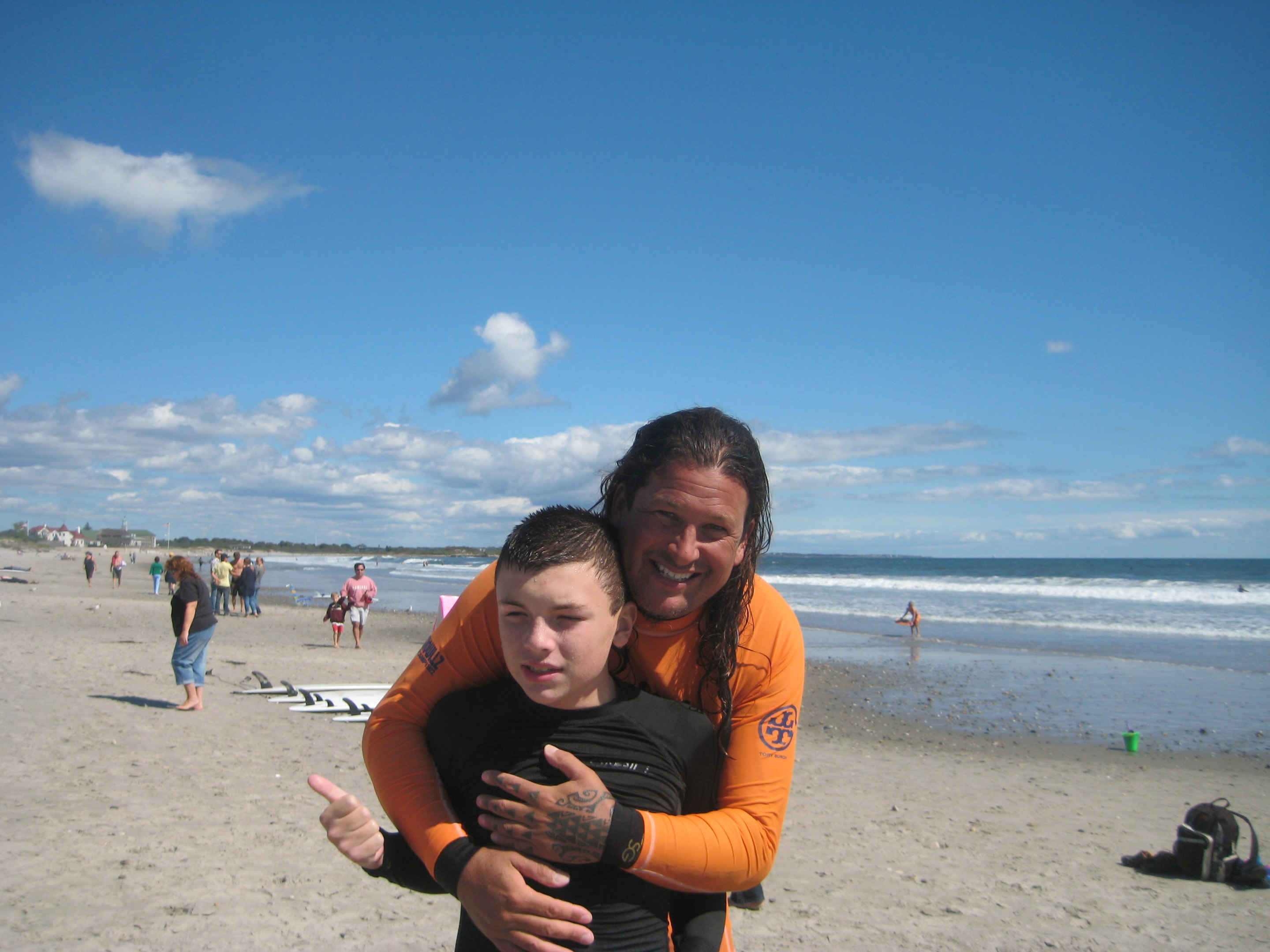 Surfer's Healing at Narragansett, Rhode Island